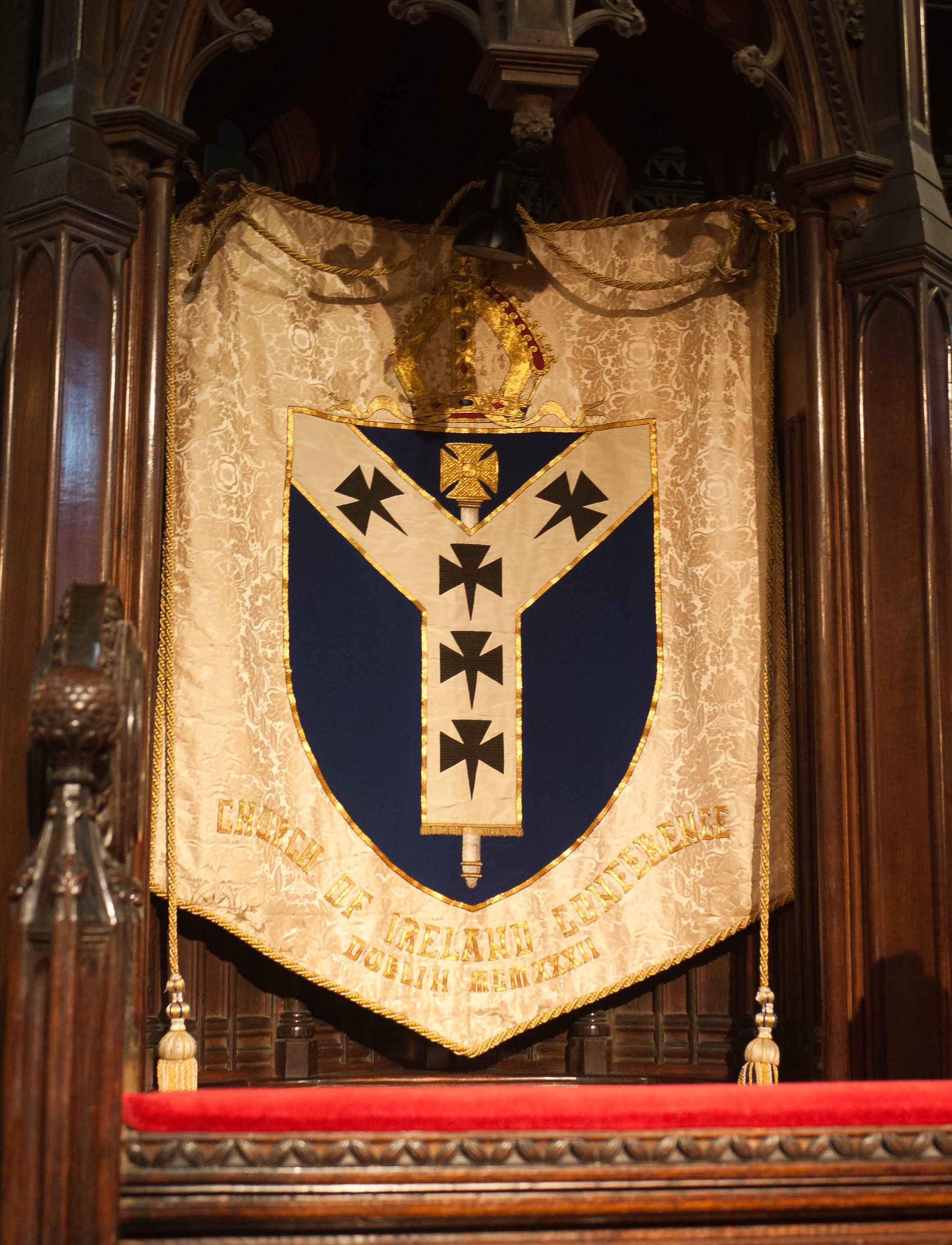 Standard of the Archdiocese of Dublin and Glendalough at the archbishop's cathedra in the quire. The inscription below the coat of arms reads: Church of Ireland Conference Dublin MCMXXXII.